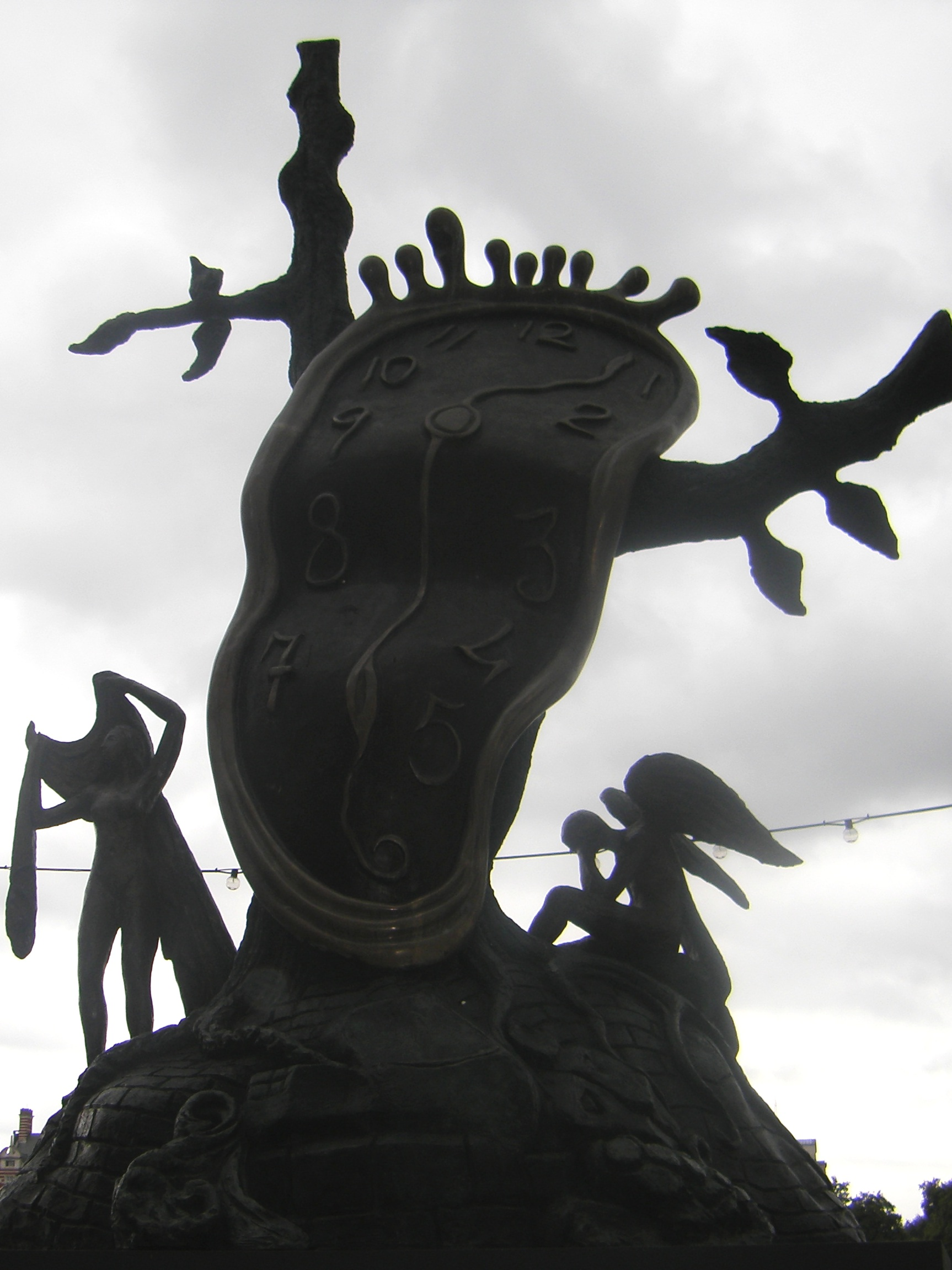 "La Noblesse du temps", sculpture of Dali's clocks outside museum of his works in London